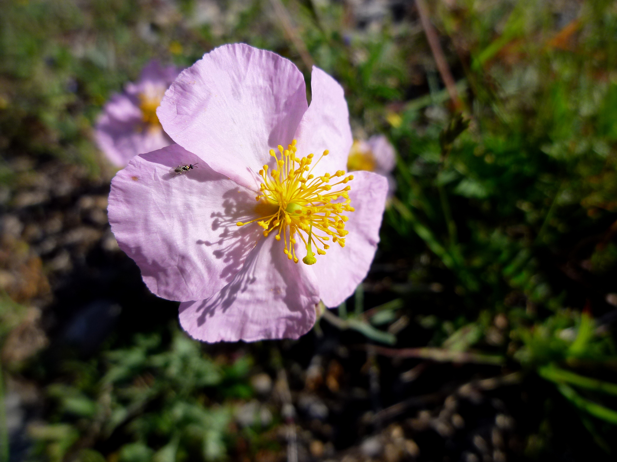 Helianthemum nummularium. In Guixers (Solsonès - Catalunya), tu 1.130 m. altitude